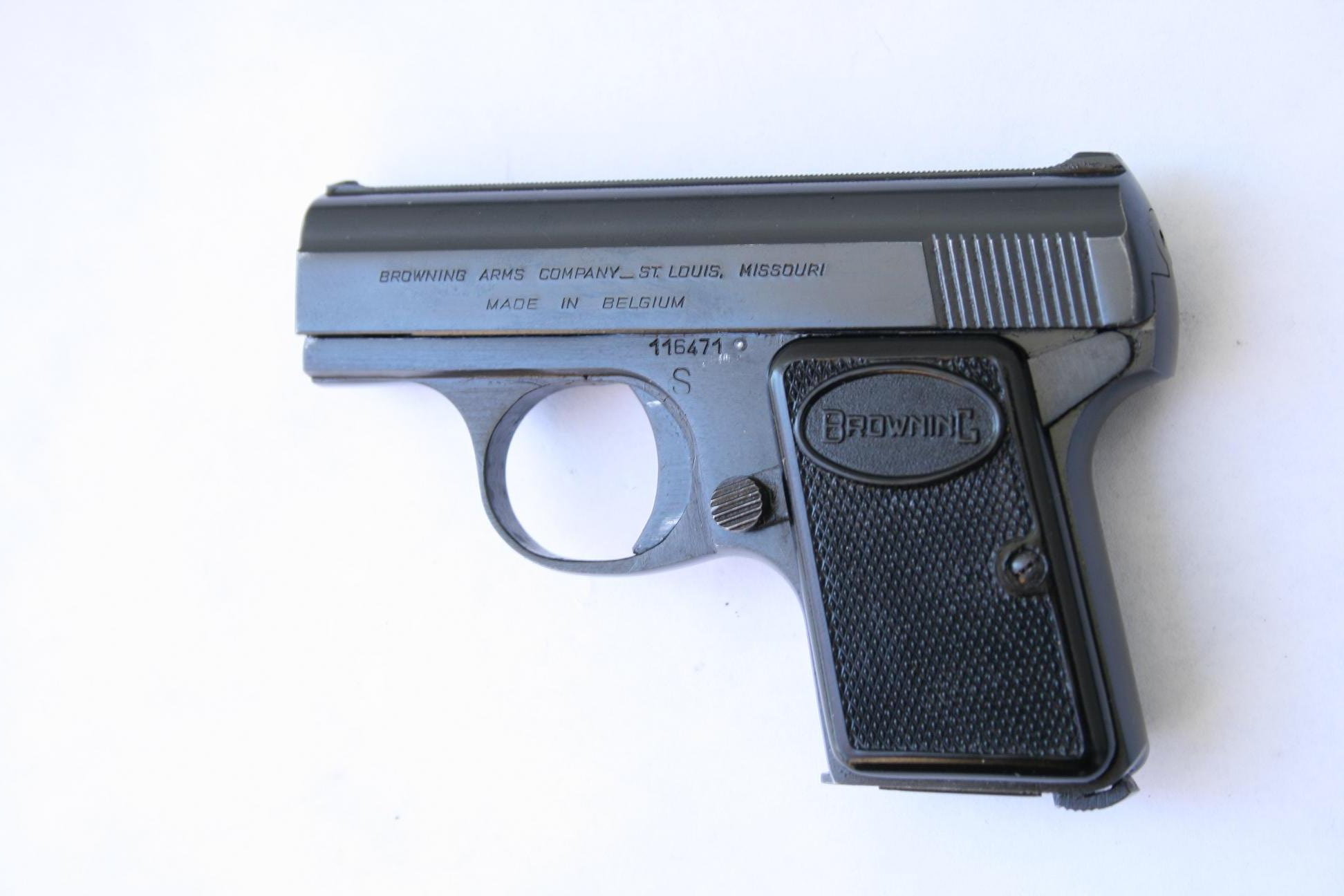 Baby Browning .25/6.35 mm